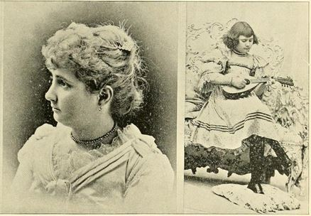 Deforest Wilbur and her daughter